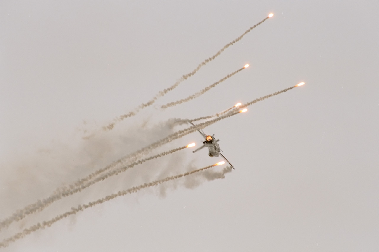 F-16 dispensing countermeasures in a simulated defensive maneuver. August 28th, 2005. The plane pictured here is an F-16 MLU of Royal Netherlands Air Force's Solo Display Team (registration number: J-055) performing at Radom Air Show 2005. The pilot behind the stick in this machine is Gert-Jan "Goofy" Vooren.